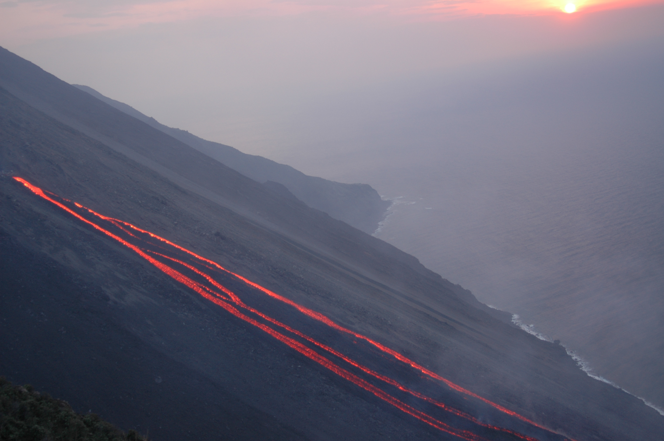 Stromboli-Lavaflow-2007-03-11